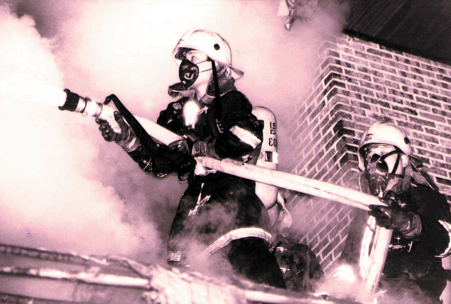 2000년대 초반 서울소방 소방공무원(소방관) 활동 사진